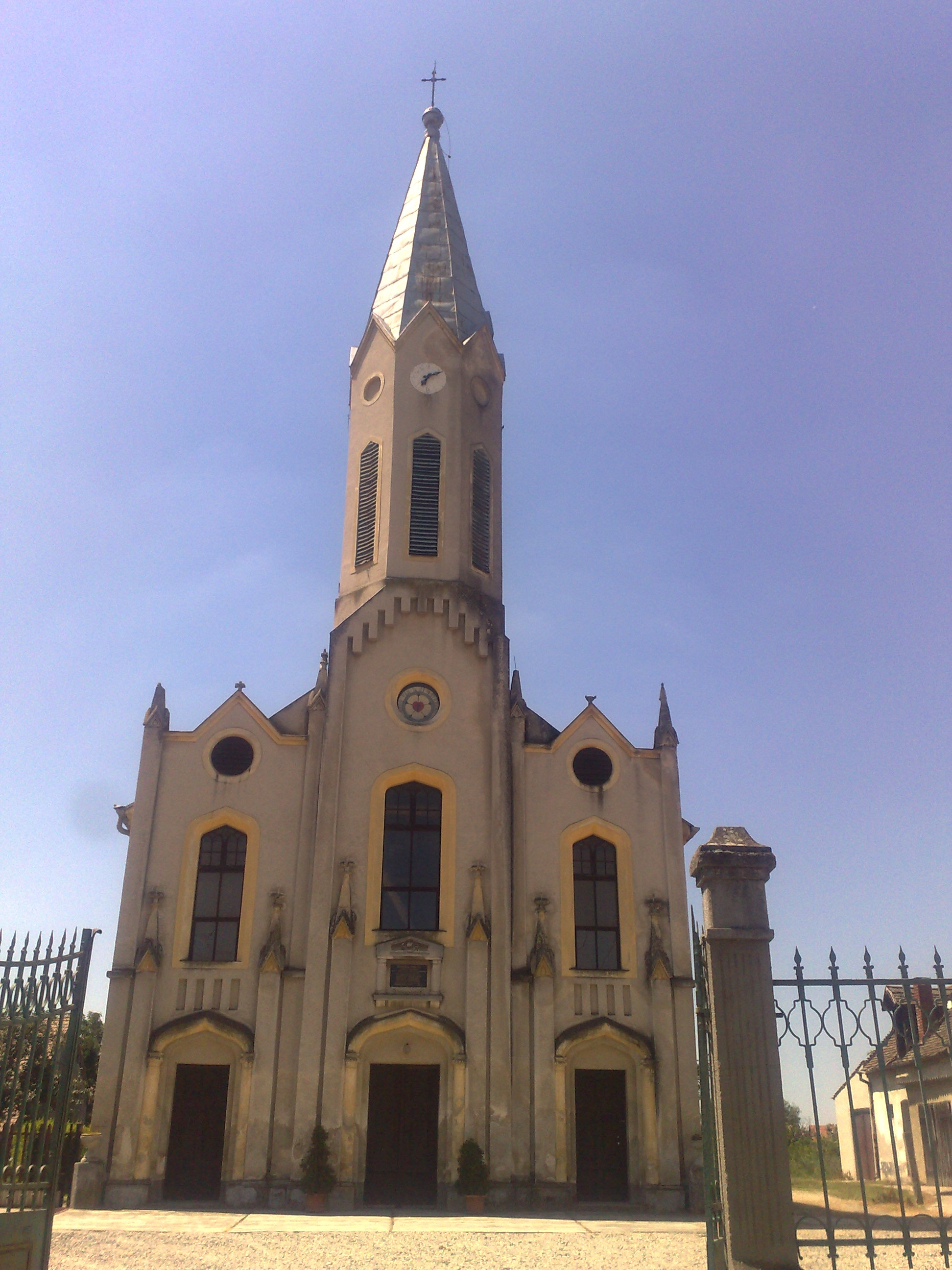 Lutheran church in Rábaszentandrás, Hungary